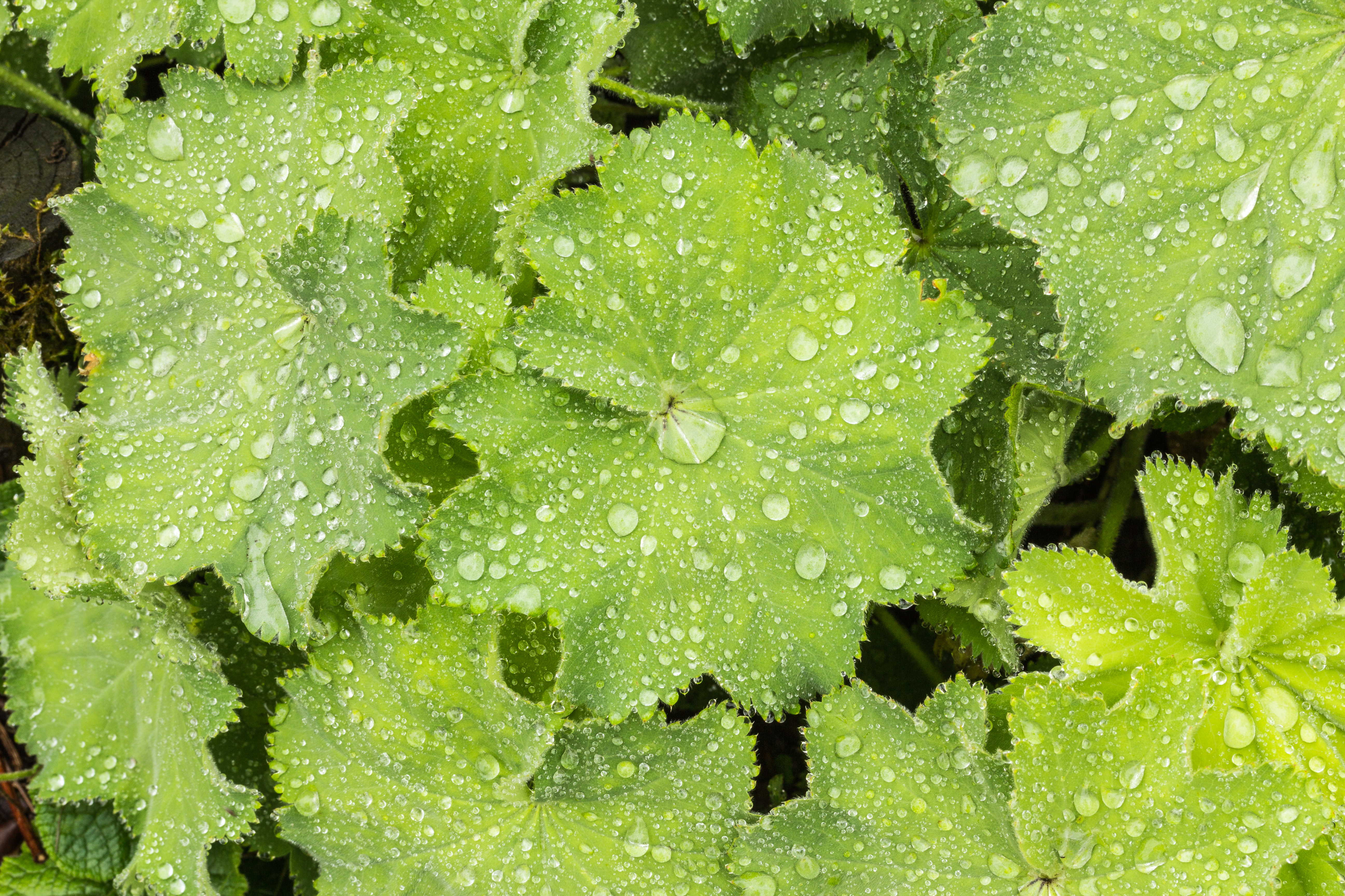 Alchemilla mollis. Alchemilla mollis covered with raindrops. Alchemilla mollis showing the beading effect of water on its leaves. Sunda: Daun Alchemilla mollis kahujanan.